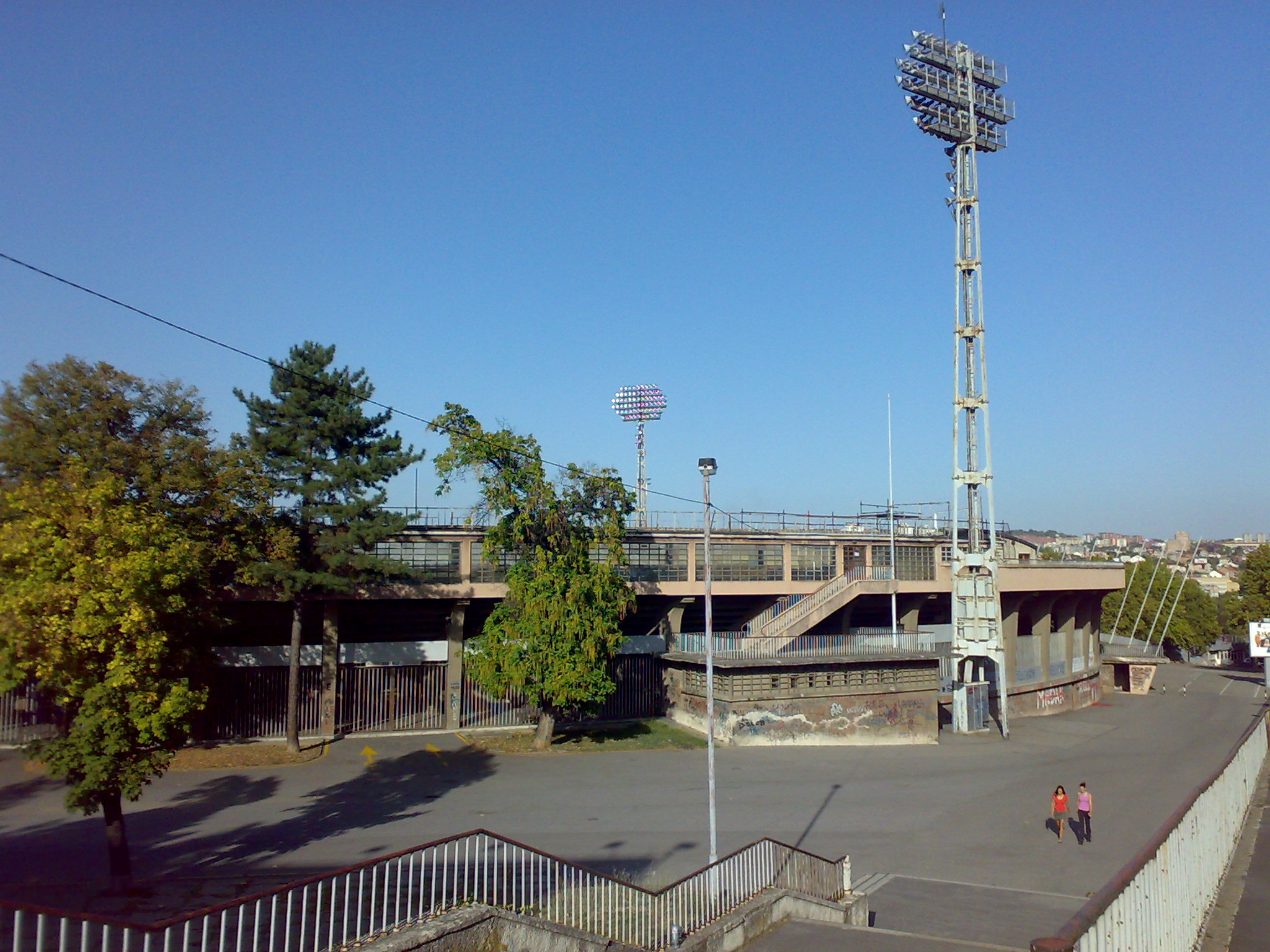 FK Partizan stadium, Belgrade